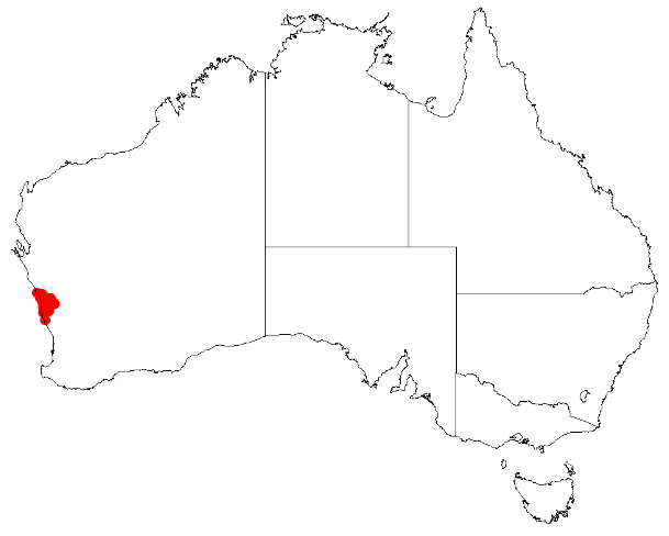 Conostylis canteriata occurrence data from AVH on 12 May 2017